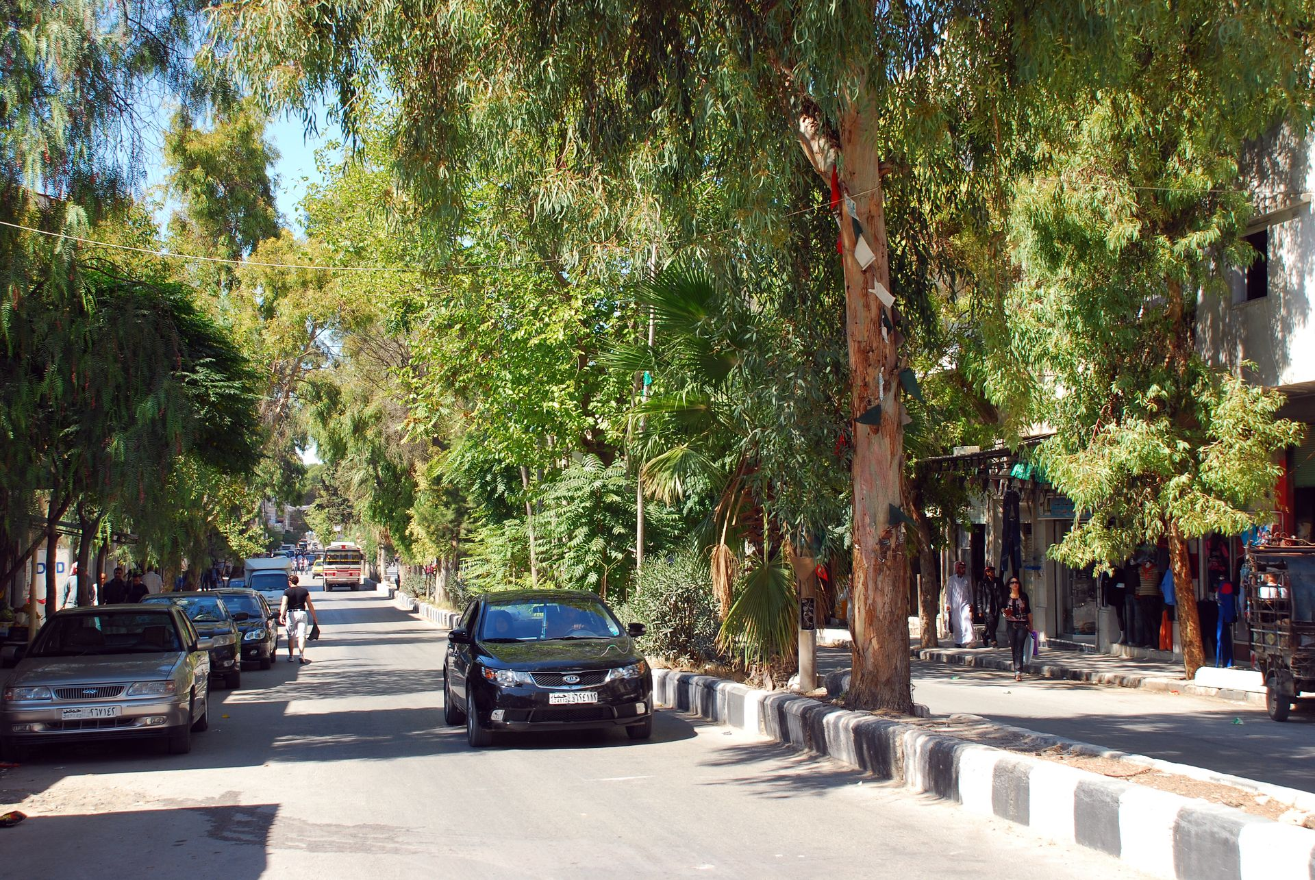 Salamiyya, Syria, main street